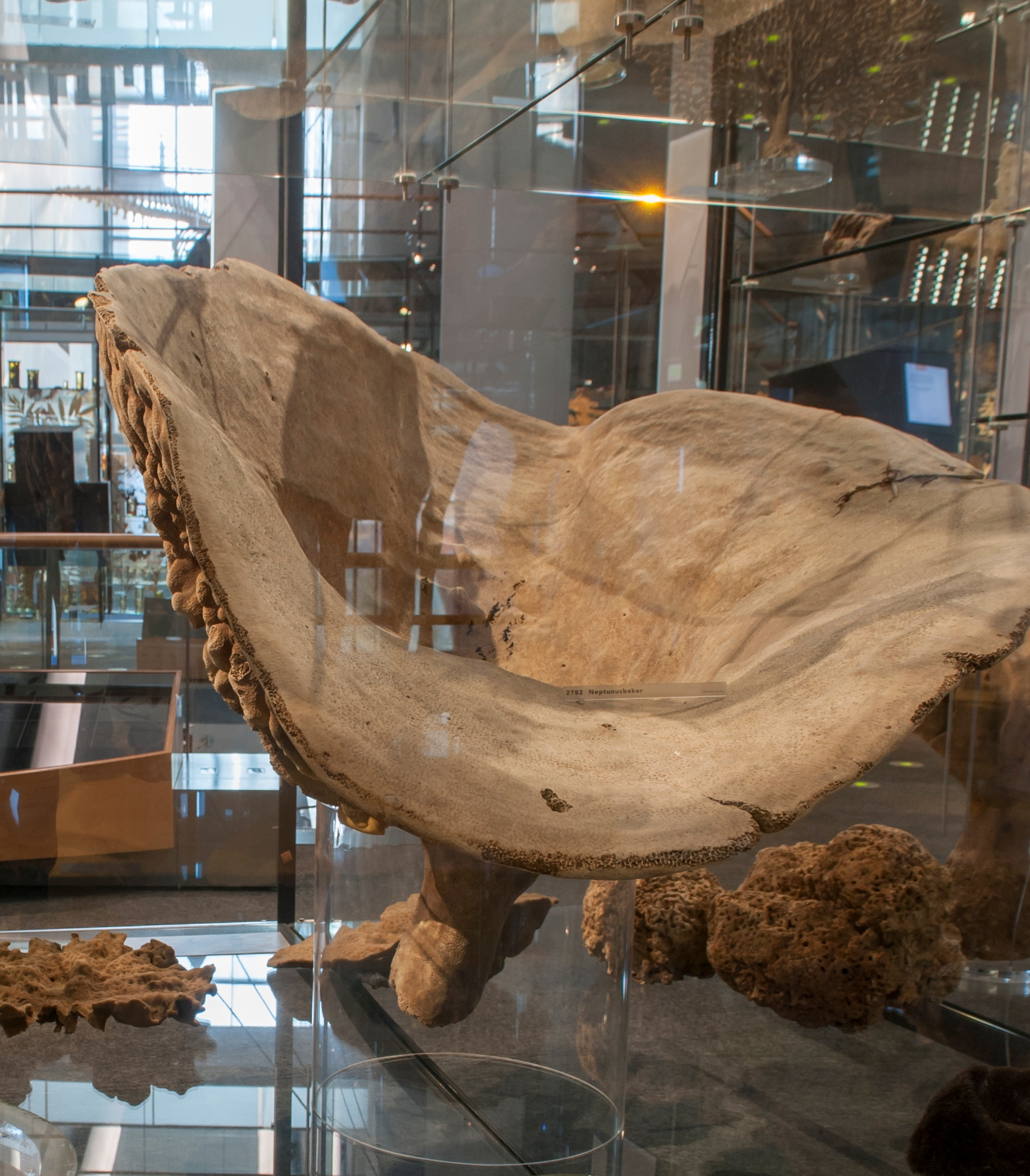 Natural history museum Naturalis, Leiden. Exhibition Nature theatre. Fossil Neptune's cup (Porterion patera = Cliona patera (Hardwicke, 1820), Porifera).